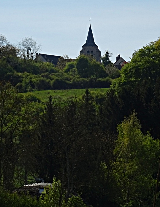 Le village de Chaumot vu des bois du Parc